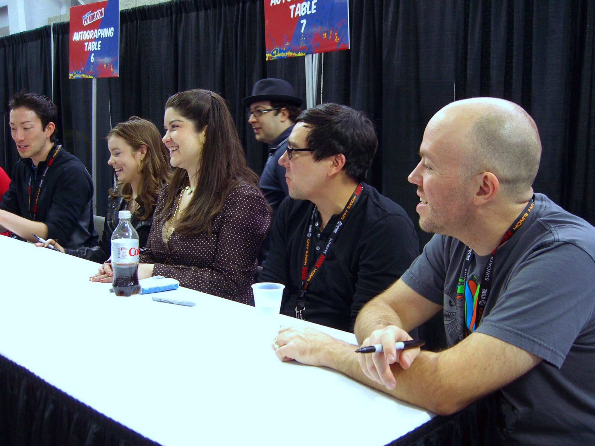 The voice cast of the anime Fairy Tail, during an October 16, 2011 appearance at the New York Comic Con. Seated behind the table, from left to right: Todd Haberkorn, Cherami Leigh, Colleen Clinkenbeard, Newton Pittman and Tyler Walker. This photo was created by Luigi Novi. It is not in the public domain, and use of this file outside of the licensing terms is a copyright violation.